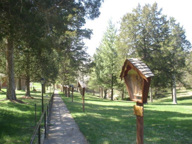 St. Joseph Roman Catholic Church, Apple Creek, Missouri Way of the Cross